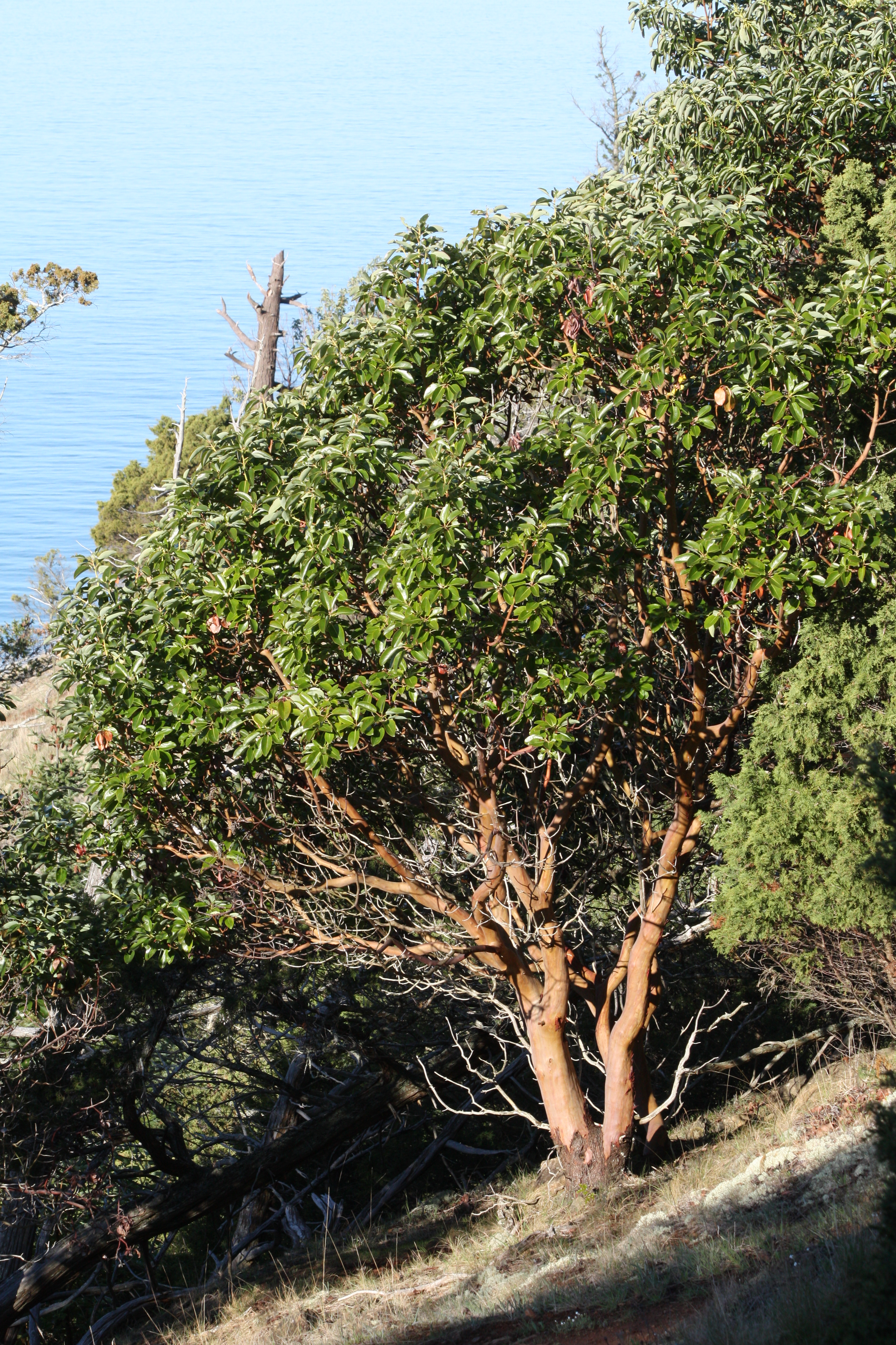 Pacific Madrone